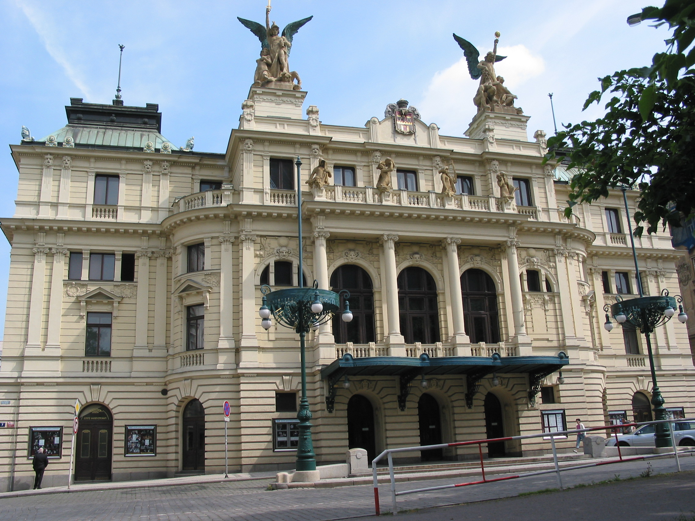 Vinohrady Theatre in Prague, Czech Republic.